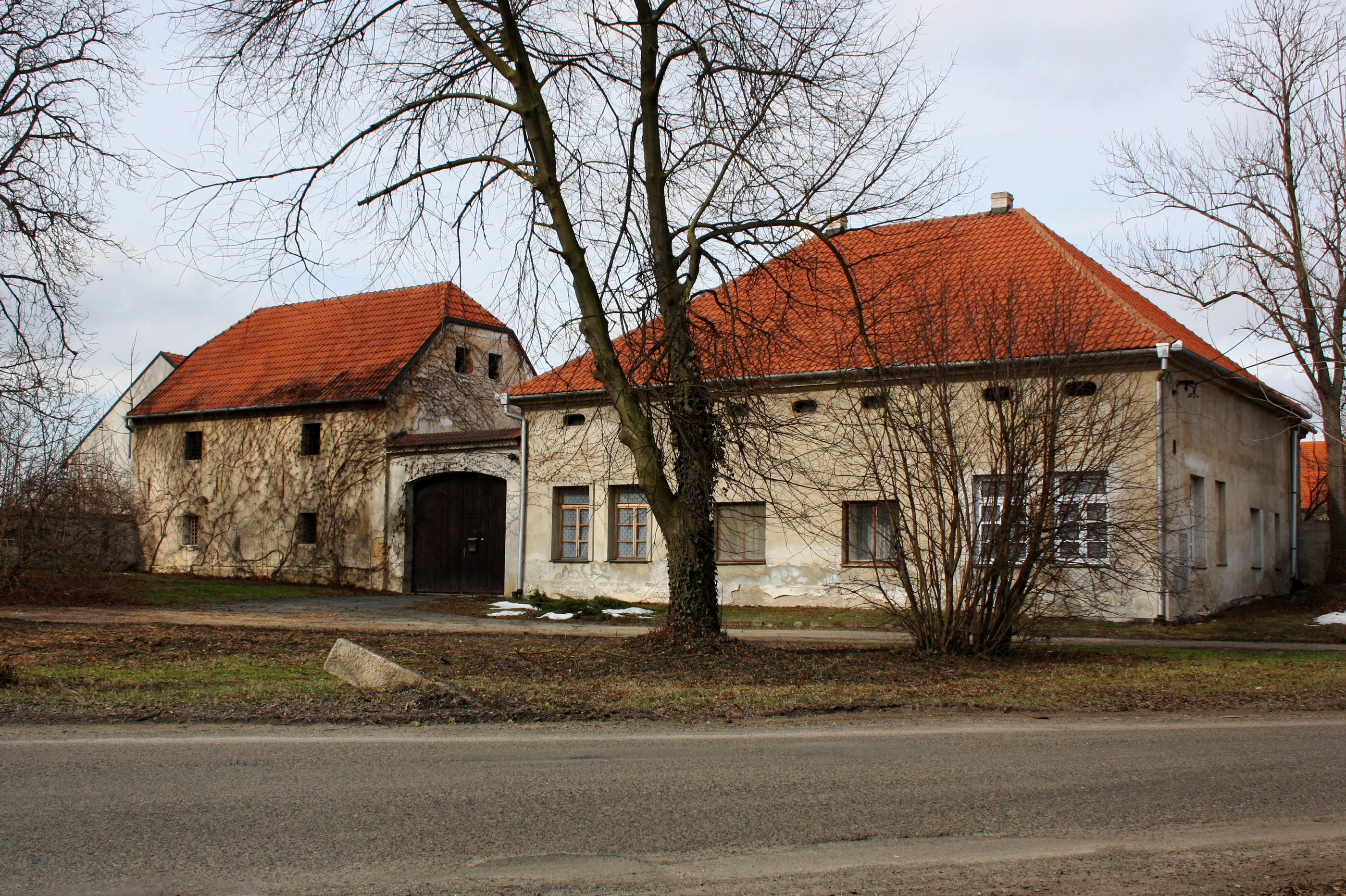 Old farm in Baštěk, part of Bašť village, Czech Republic